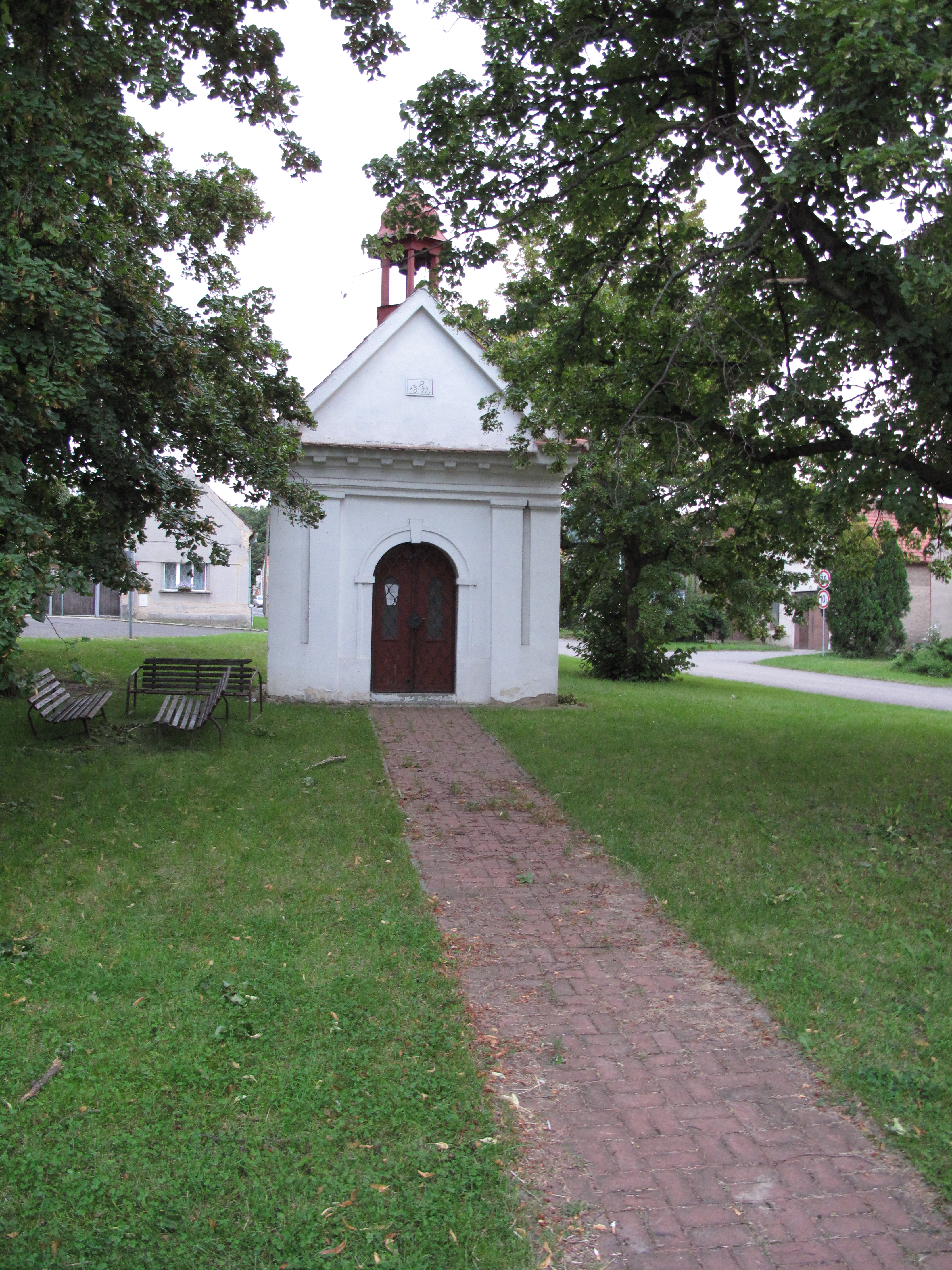 Village chapel on village square in Chodovlice village, Litoměřice district, Czech Republic. In the gabble is written:L.P.18-22.